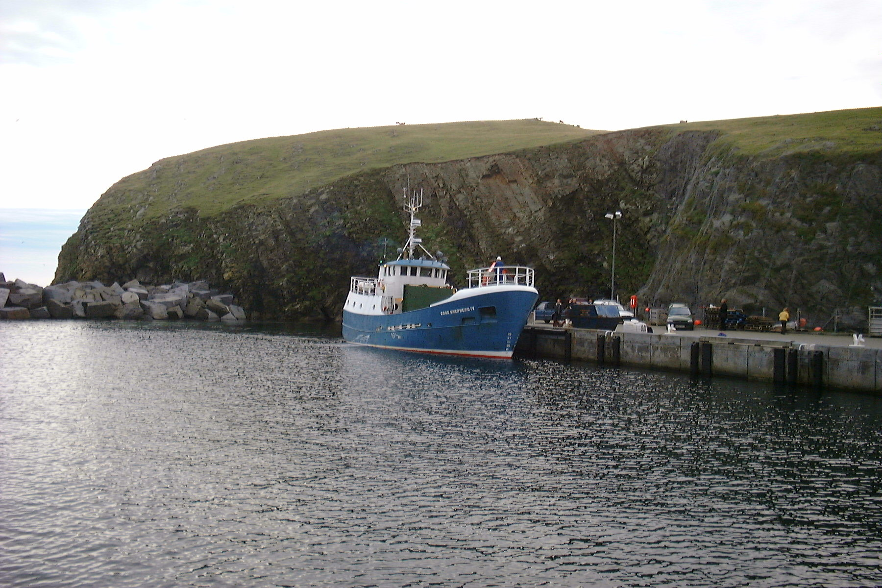 MV Good Shepherd IV in Fair Isle North Haven. IMO MMSI 232003605 Callsign: GFXQ Built: 1986 by Millers, St Monace Yard No: 1024 LOA 18.3m Beam 5.8m Depth 3.168m Max Draft 2.63m GT 76.38T RT 45.33T DWT 54.2T Displacement at Max Draft 125.6 Tonnes Propulsion 1 x Volvo TMD 121C 1 x 238.6kW